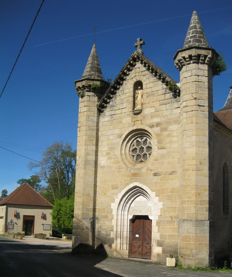 Picture of church of Rueyres in Lot, France.